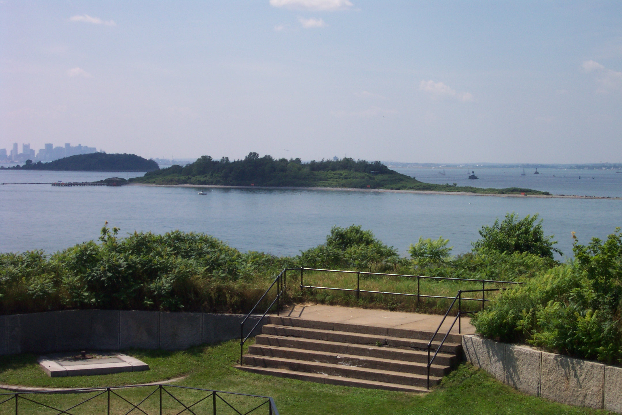 Gallops Island (center) in Boston Harbor as viewed from Fort Warren on Georges Island. Skyline of downtown Boston to top left, over the tip of Long Island. For more information see the Wikipedia article Gallops Island.